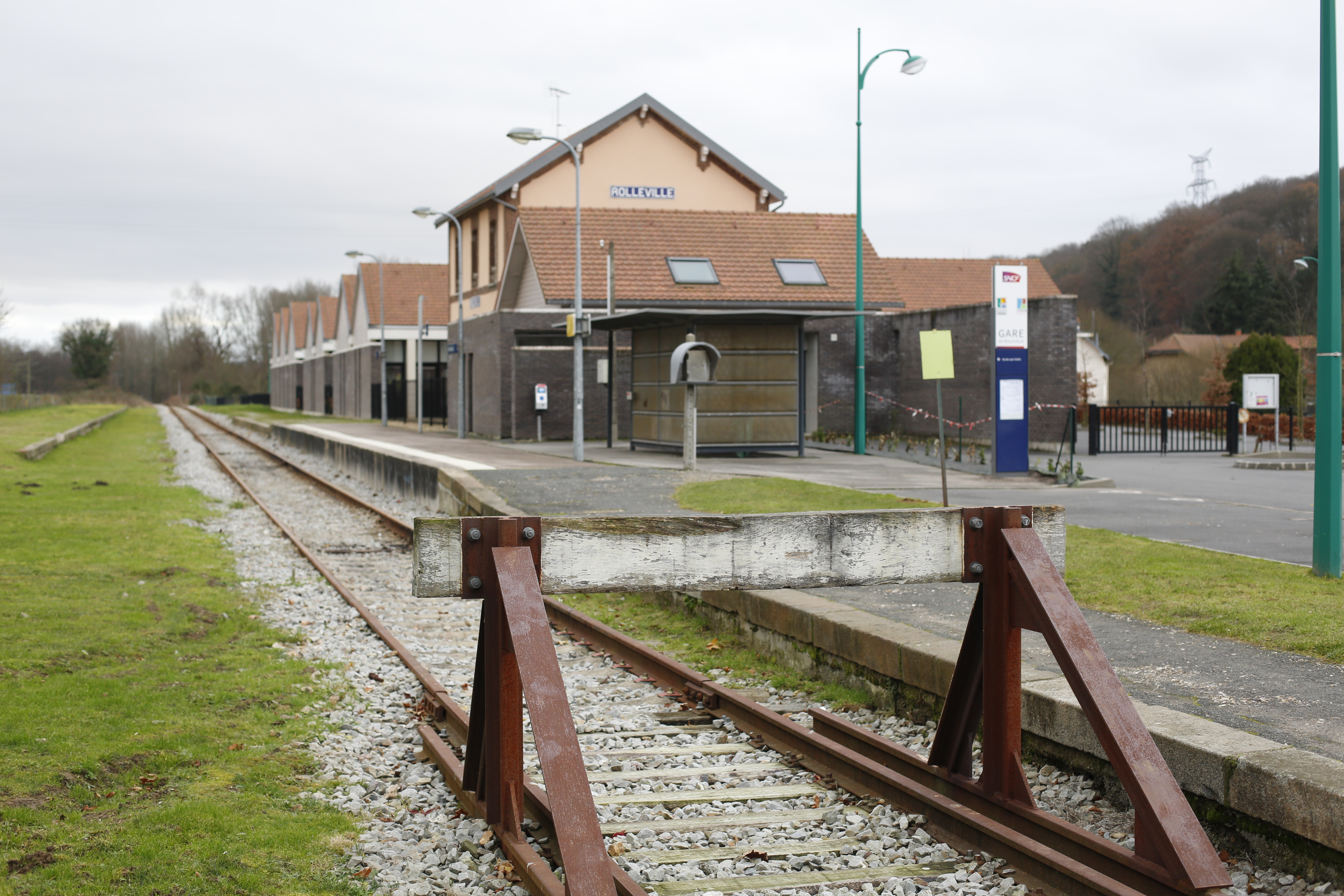 Train station of Rolleville.